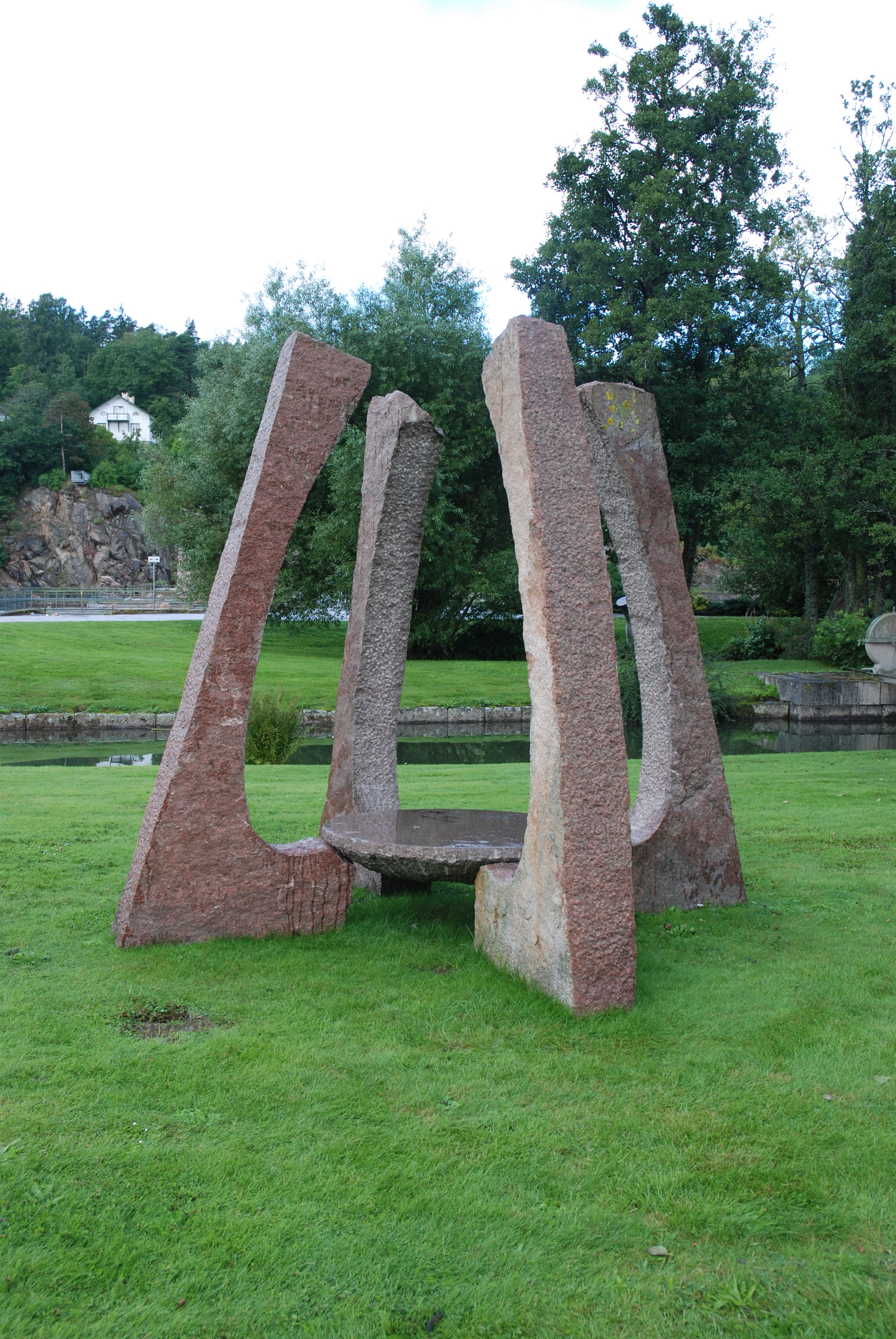 Ingemar lolo Anderssons Kraftsamling, Trollhättan, Sweden